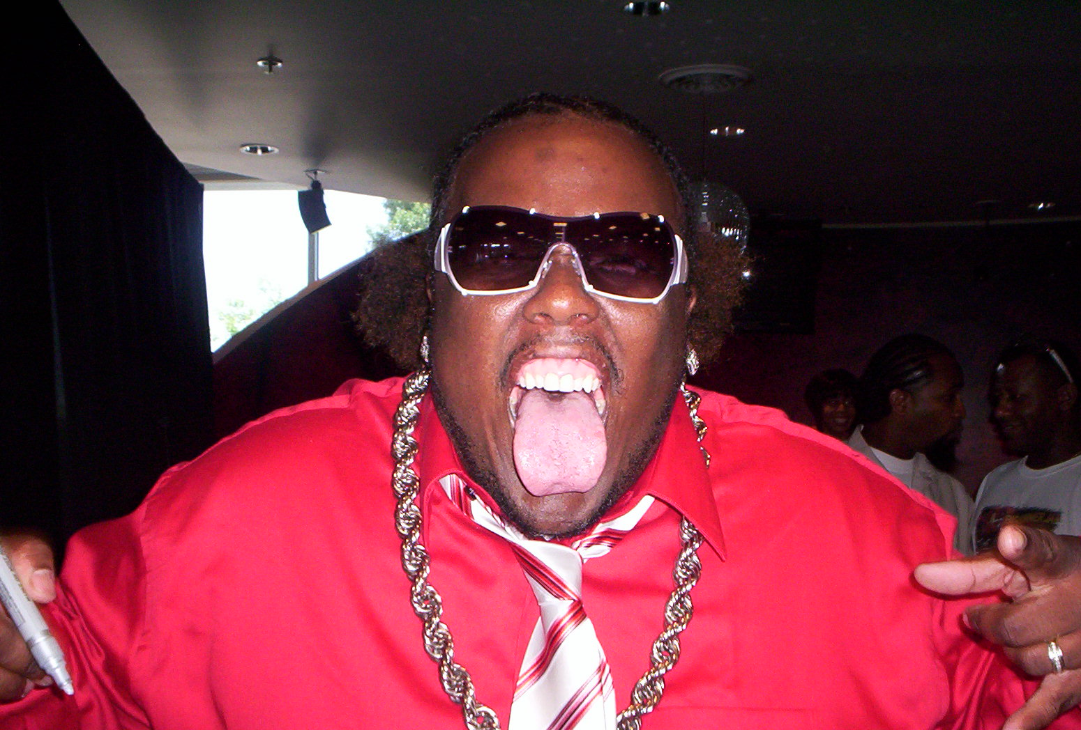 Photo taken of Kansas City rapper/singer Krizz Kaliko at fellow Kansas City rapper Tech N9ne's in-store release signing of his album Killer at FYE in Independence, Missouri.